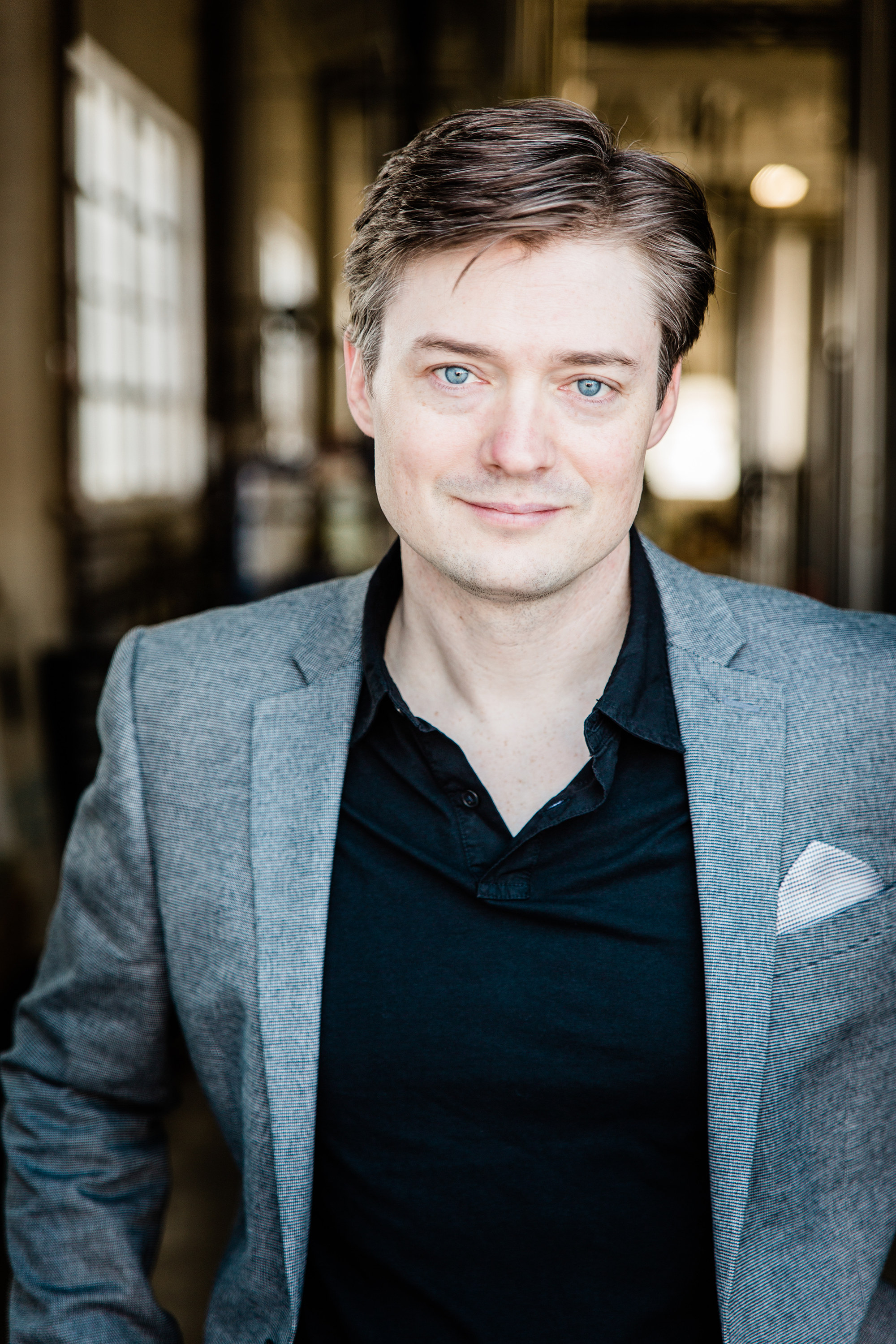 Headshot of Andrew Rader, author of Beyond the Known